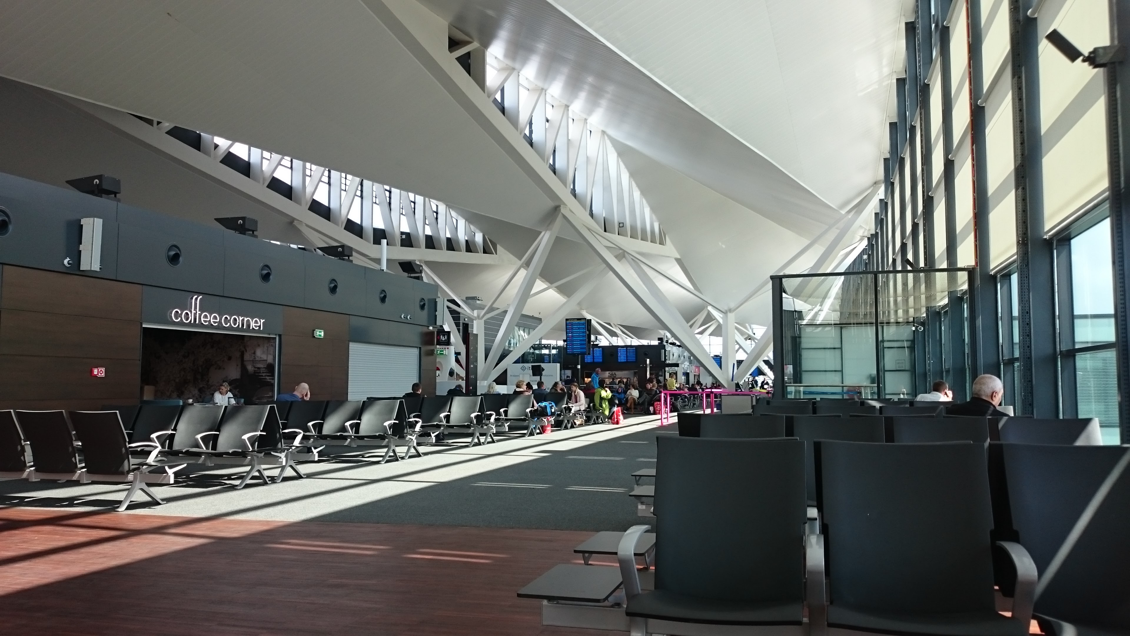 Gdańsk Lech Wałęsa Airport interior - gates area